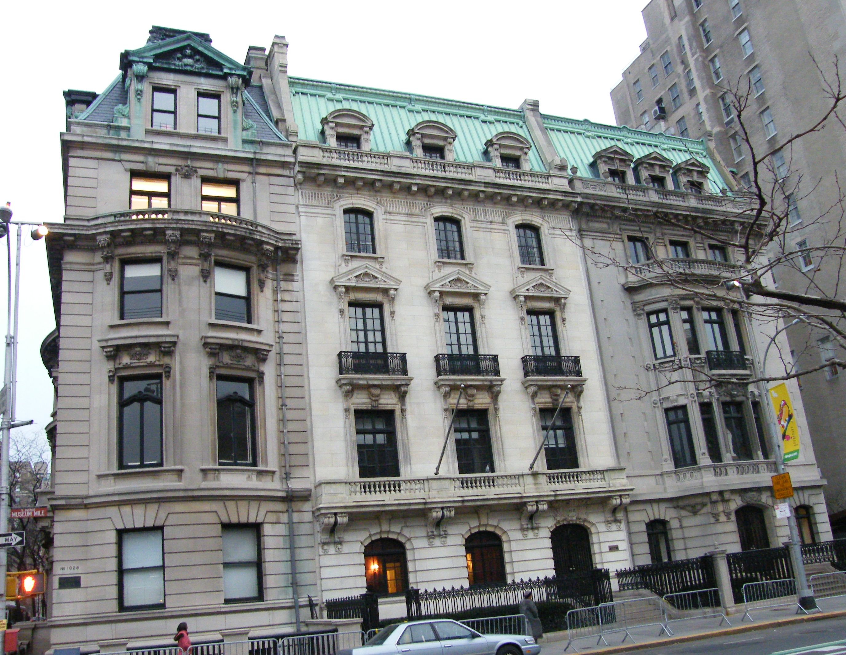 1026-1028 Fifth Avenue on National Register of Historic Places in New York City. See also File:Marymount School jeh.JPG.